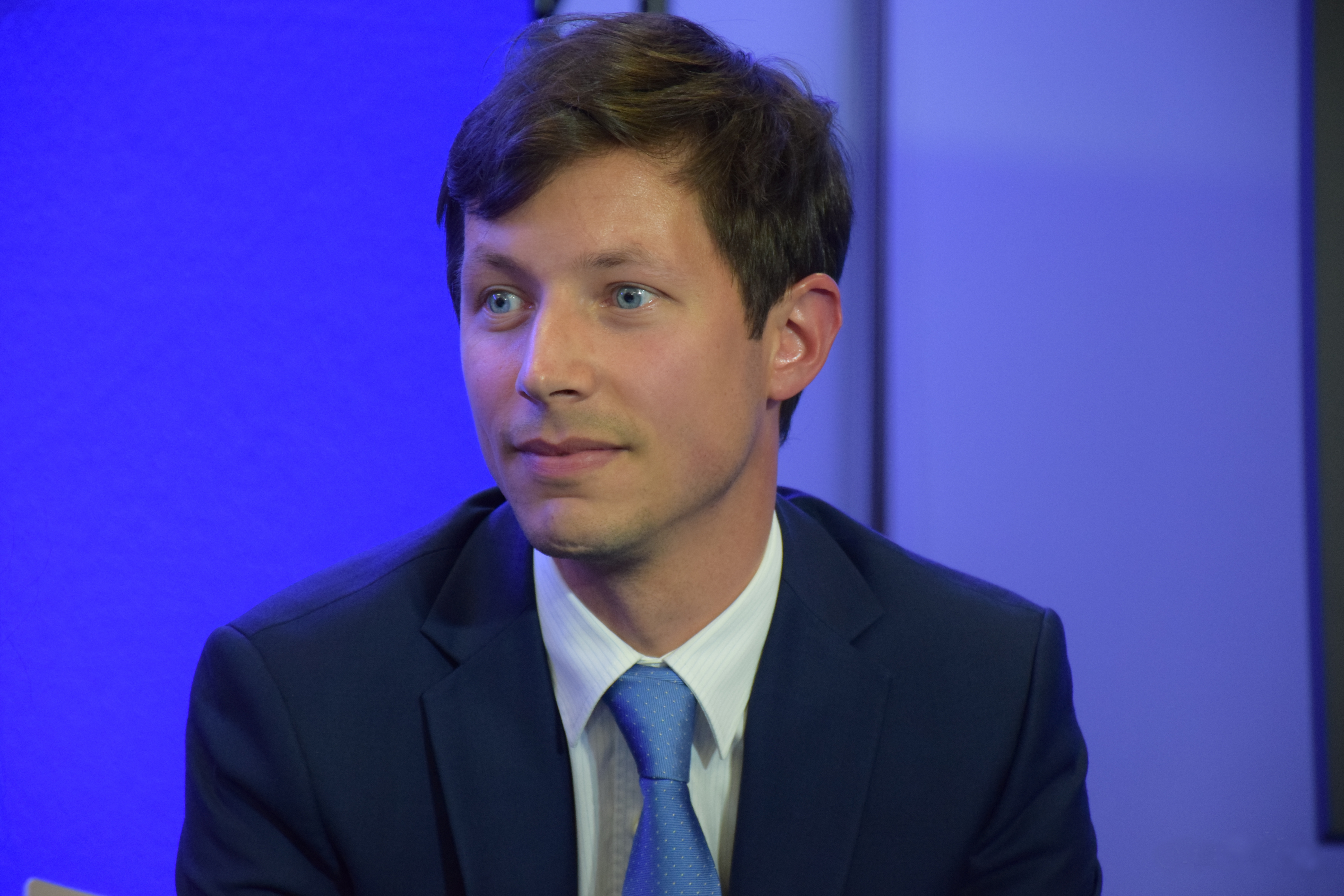 François-Xavier Bellamy in Paris (France).